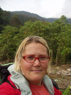 Image of Dr. Amy Townsend-Small courtesy of NASA Astrobiology Institute